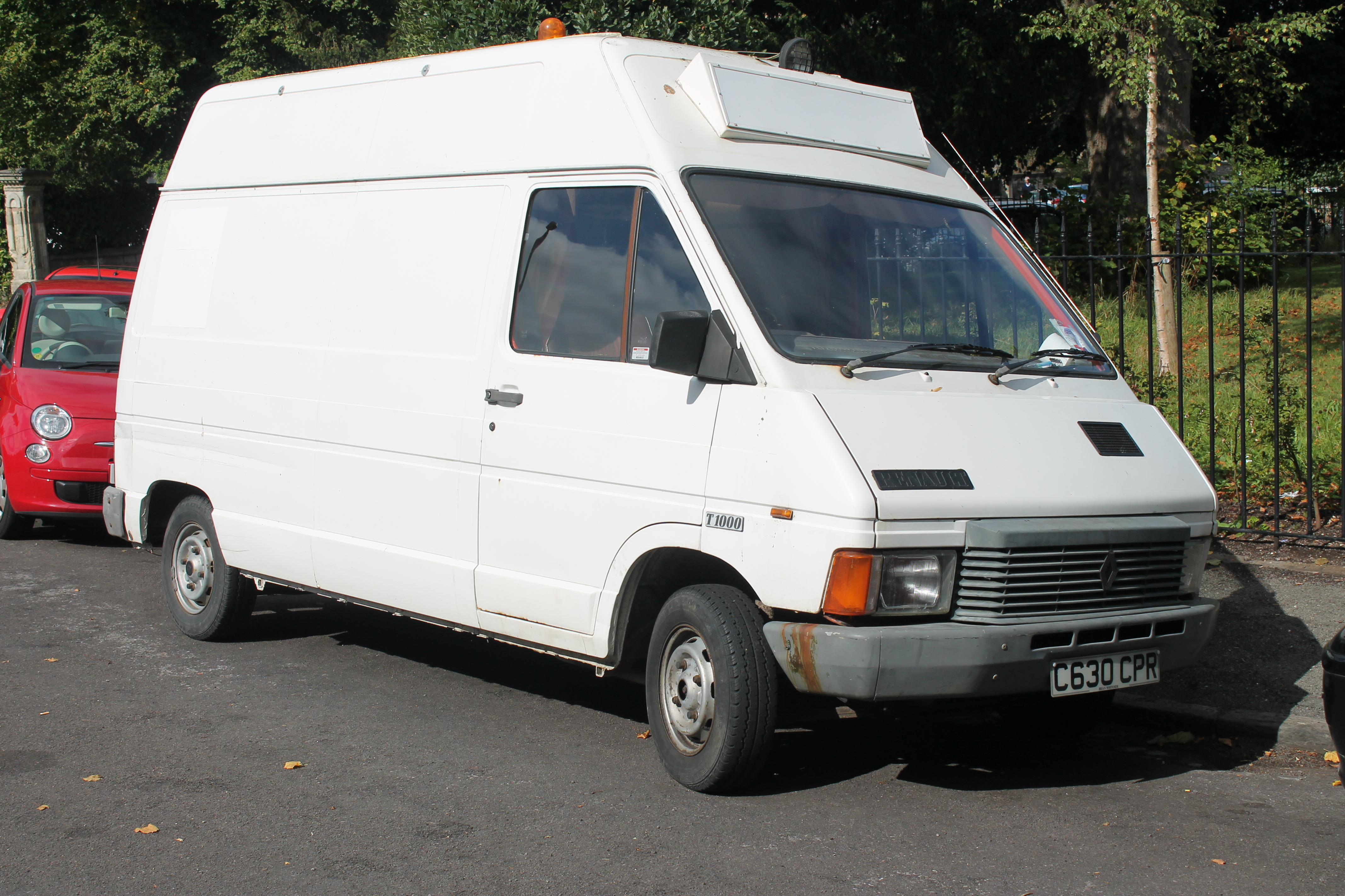 This exact Renault Trafic is still on the road, based in Somerset and is currently known as 'Vannie' (Annie's Van) and is used as a surfer's carry-all. This example even has the older front end, before they replaced it with a more conventional design. A bit rusty, but for a van, it's very tidy! The vehicle details for C630 CPR are: Date of Liability 01 12 2013 Date of First Registration 09 05 1986 Year of Manufacture 1986 Cylinder Capacity (cc) 1647cc CO₂ Emissions Not Available Fuel Type PETROL Export Marker N Vehicle Status Licence Not Due Vehicle Colour WHITE Vehicle Type Approval Not Available Vehicle Excise Duty rate for vehicle 6 Months Rate £123.75 12 Months Rate £225.00 There can't be many of these pre-facelift Trafics still around as vans in the UK?